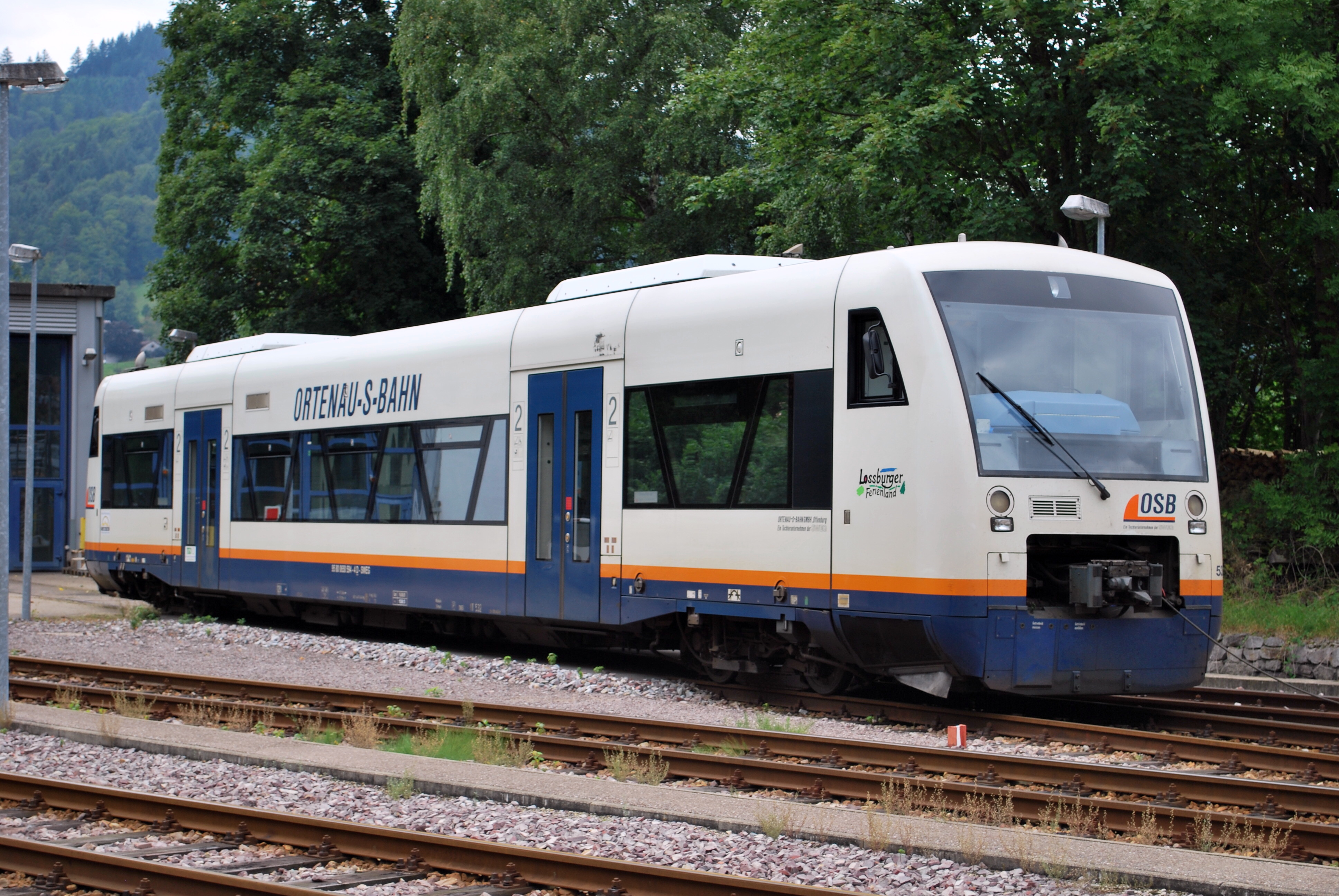 Wagon Union (Adtranz) diesel railcar for the Ortenau S-bahn No.9 80 1625 20-50 at Ottenhofen, 09/12. This unit is the same as the DB Class "650" "Regio Shuttle".